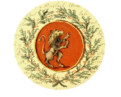 Coat of Arms of Valkininkai city in 1792